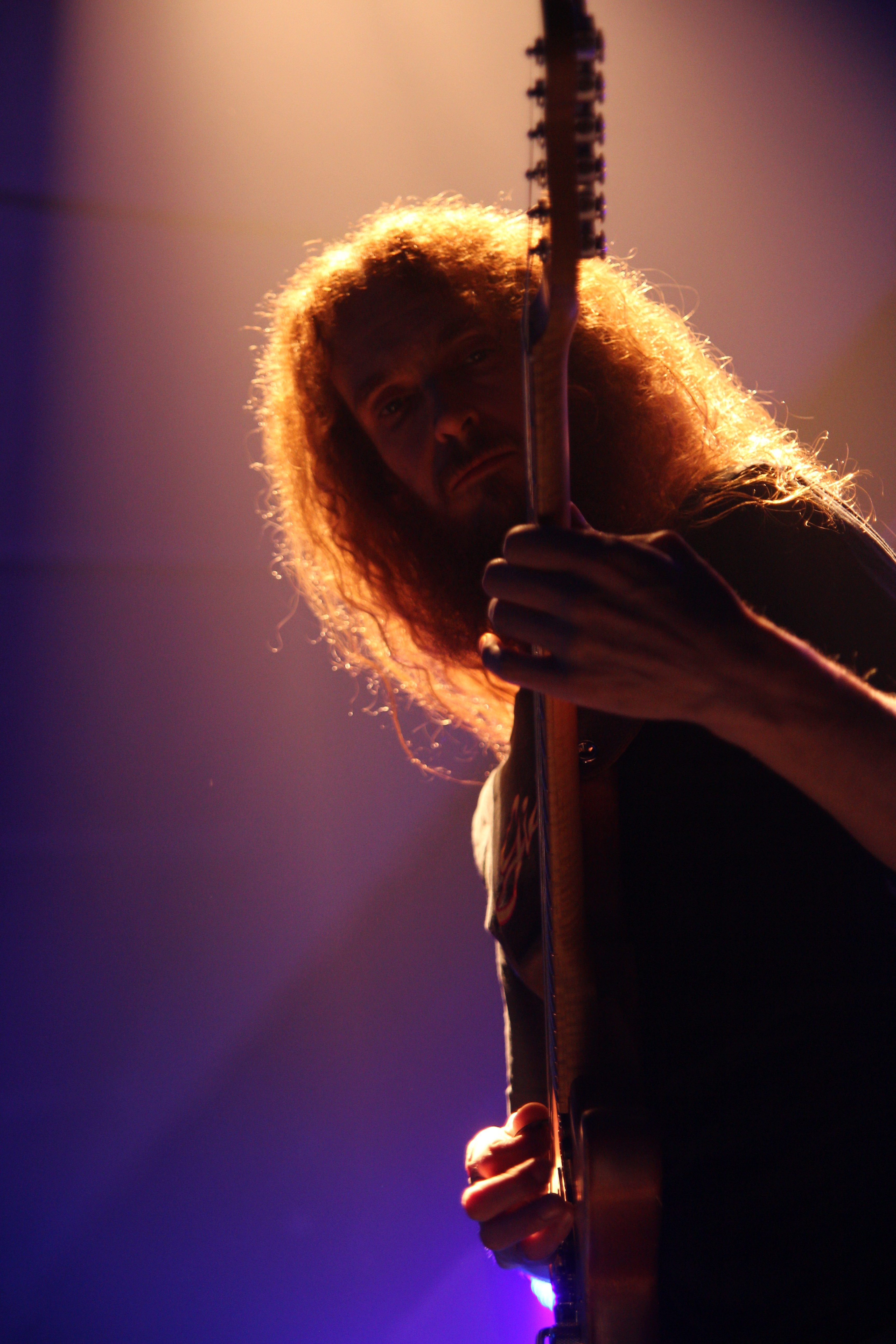 The guitarist Guthrie Govan on Tour with Steven Wilson